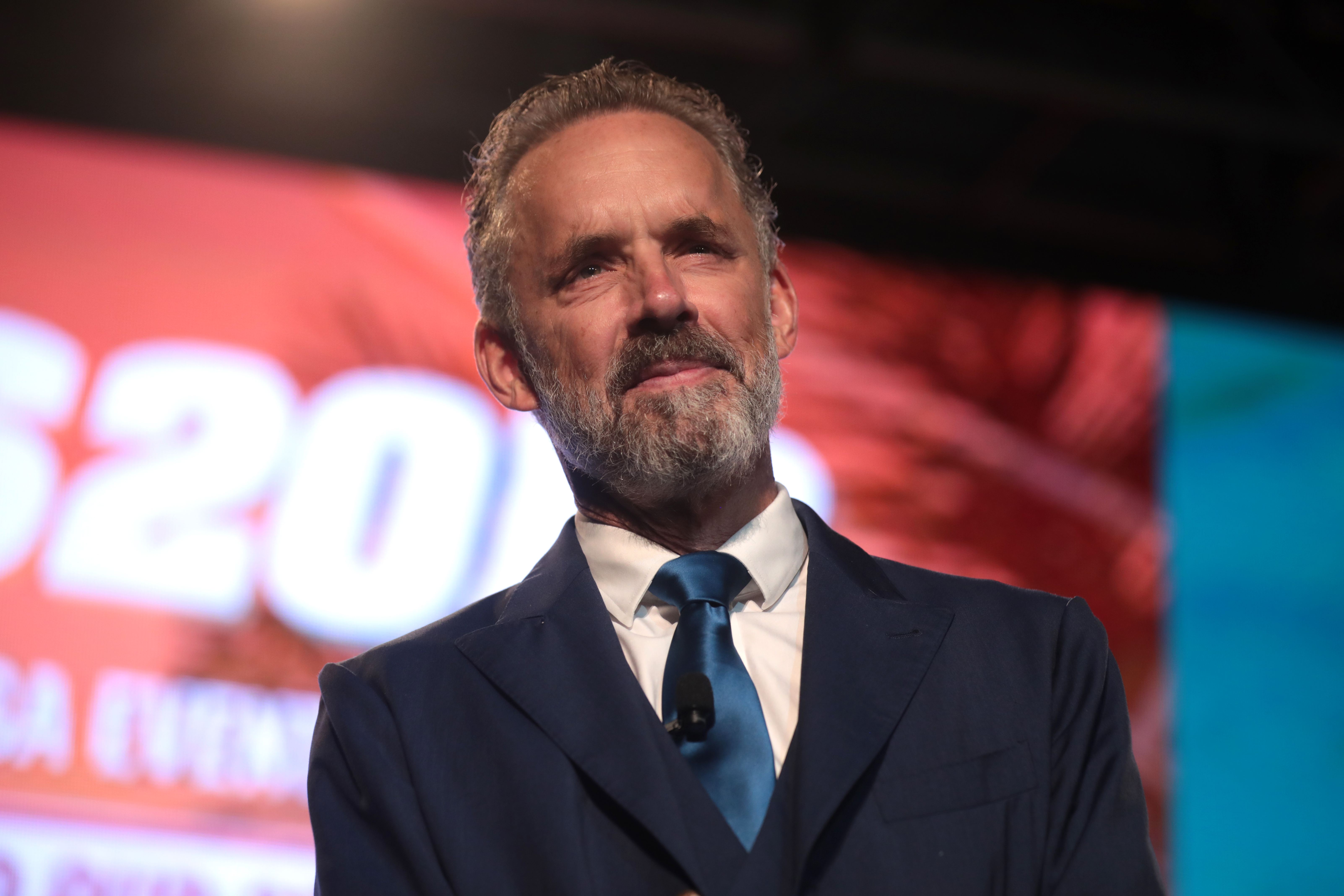 Jordan Peterson speaking with attendees at the 2018 Student Action Summit hosted by Turning Point USA at the Palm Beach County Convention Center in West Palm Beach, Florida.